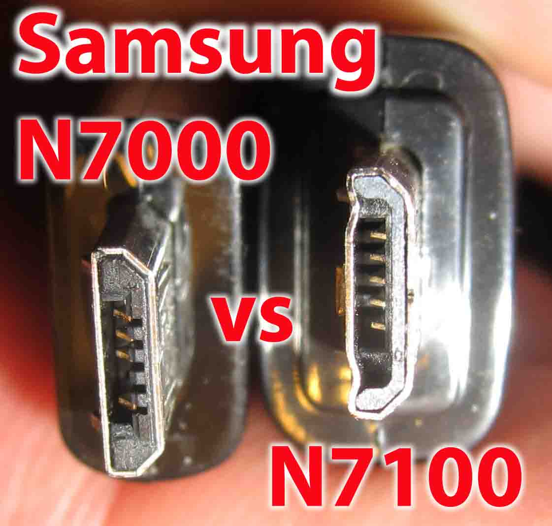 Indirect comparison of the micro USB 2.0 ports of the Samsung Galaxy Note original (eg GT N7000) and the Note II (eg GT N7100) looking at two HDMI adapter connectors.